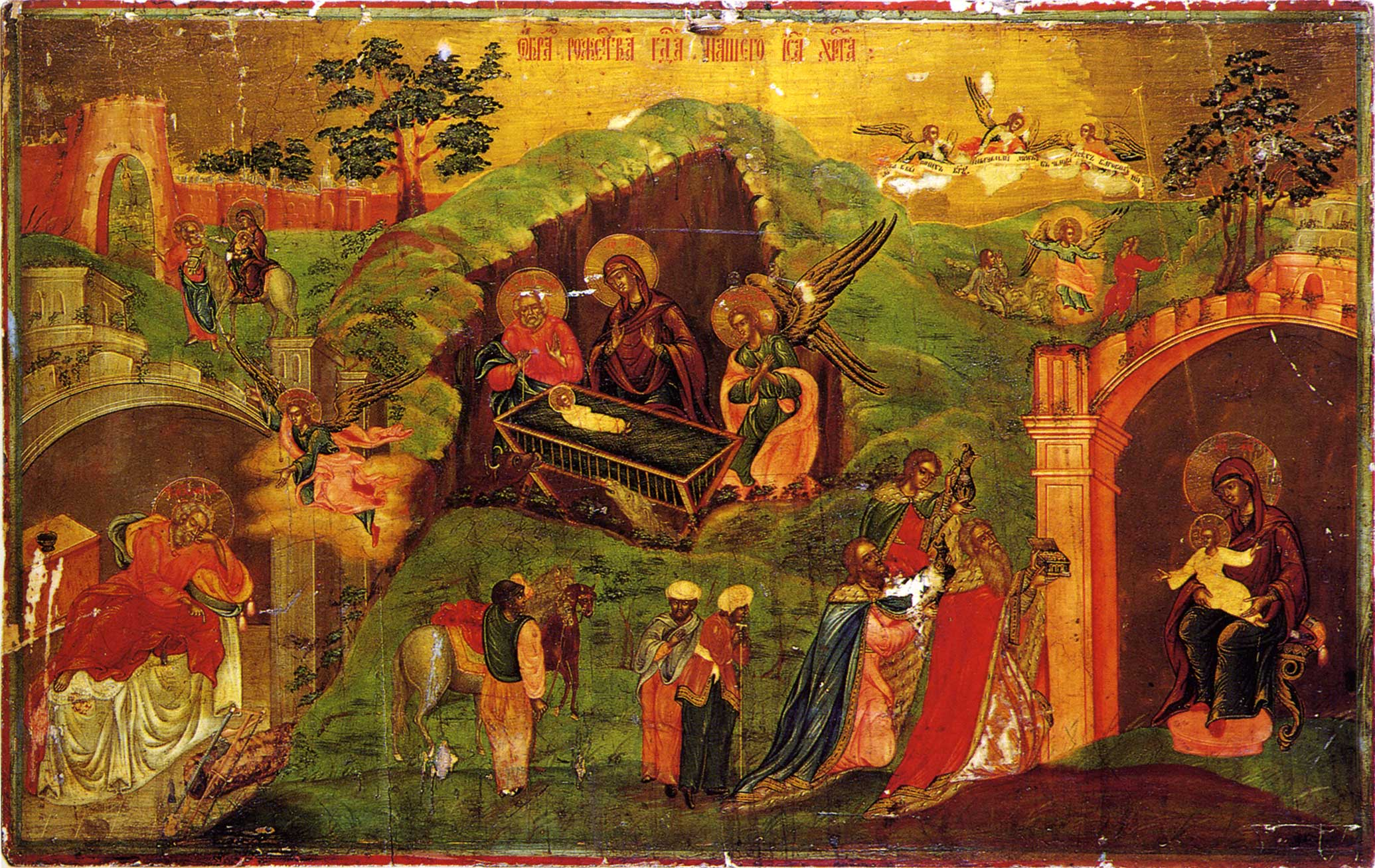 Nativity and adoration of the Magi